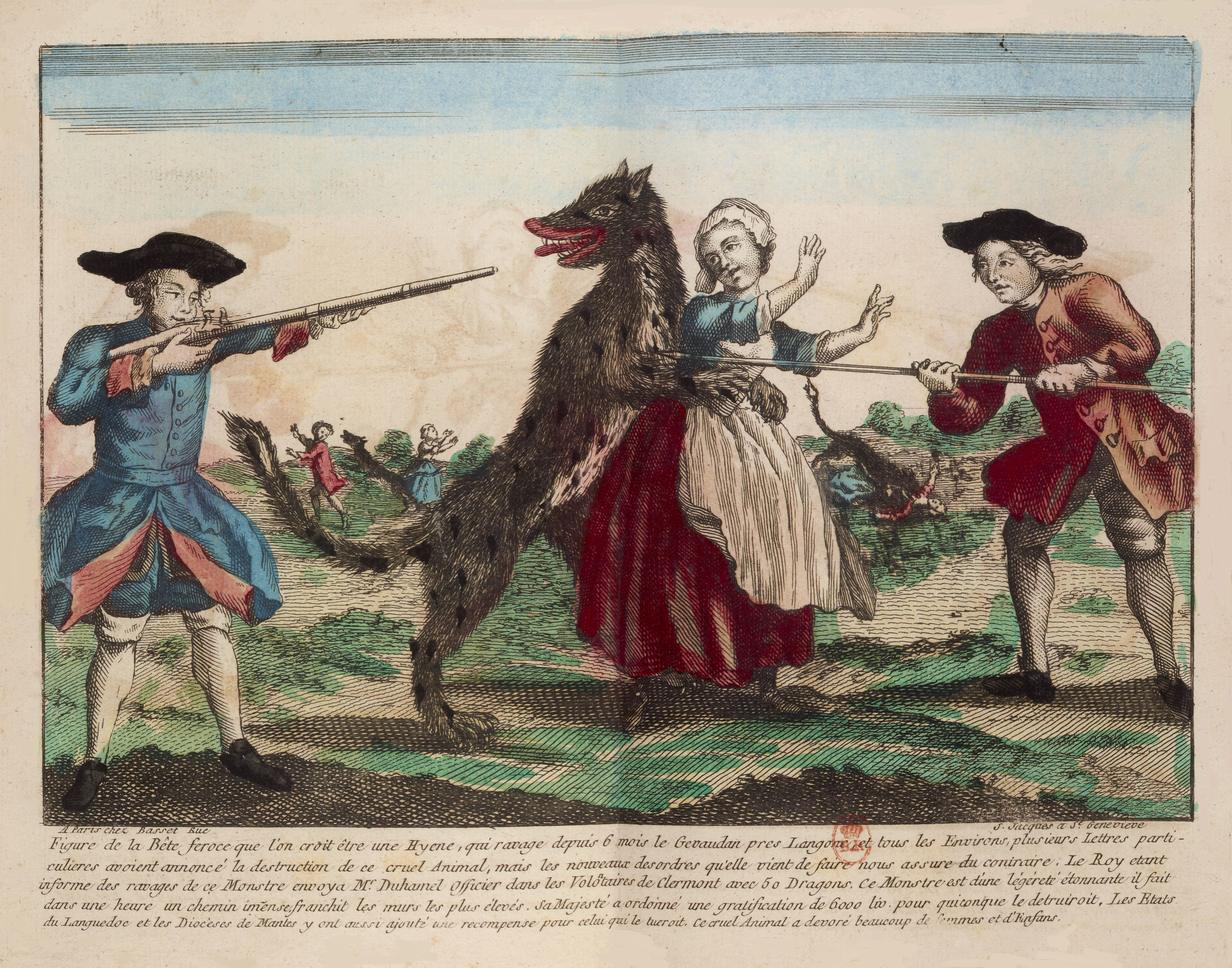 18th century print depicting the Beast of Gévaudan.